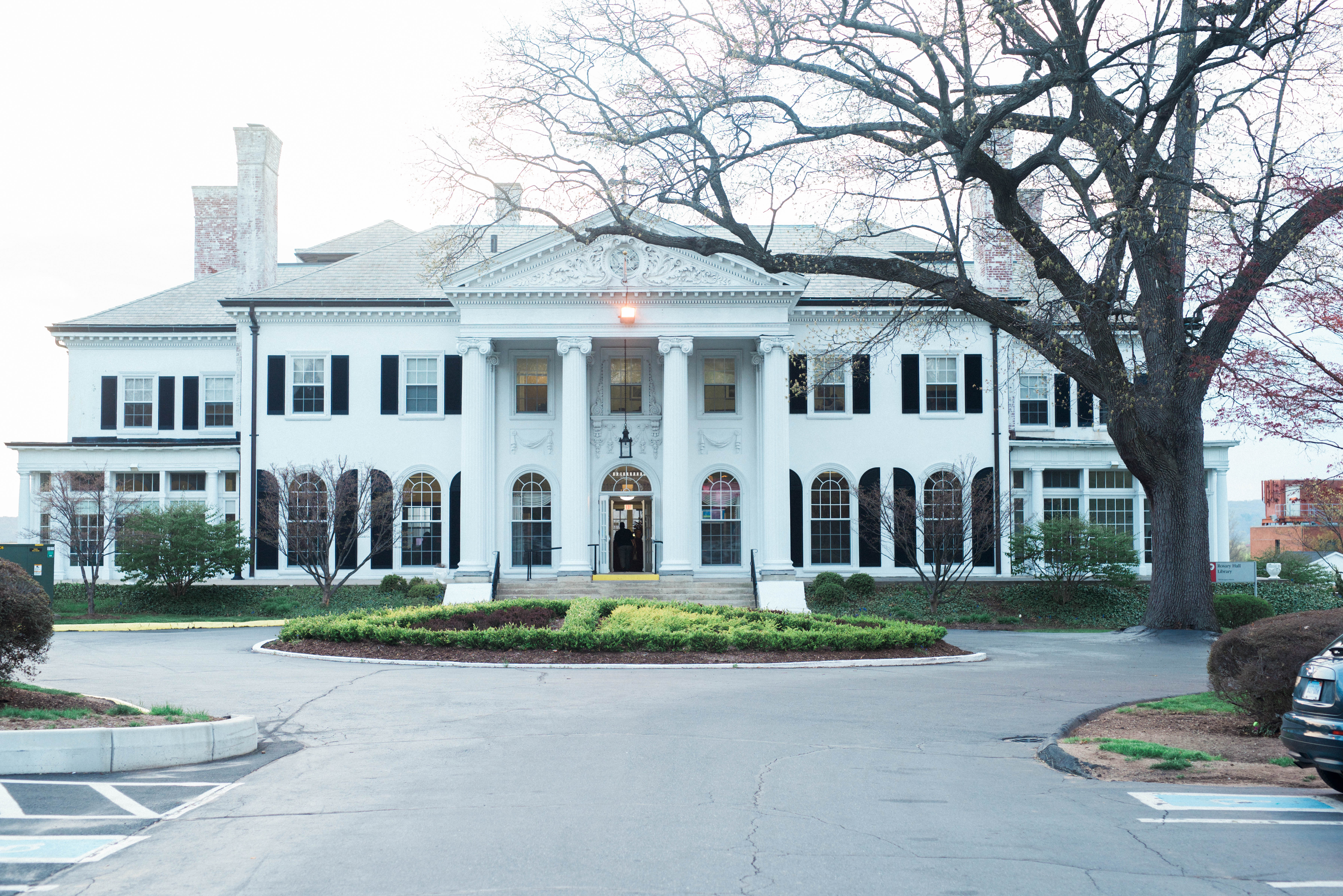 Albertus Magnus College in April 2016.